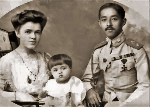 Kateryna (Catherine) Desnytska (Ukrainian ethnicity) and Prince Chakrabongse Bhuvanath of Siam (now Thailand), with young Chula Chakrabongse